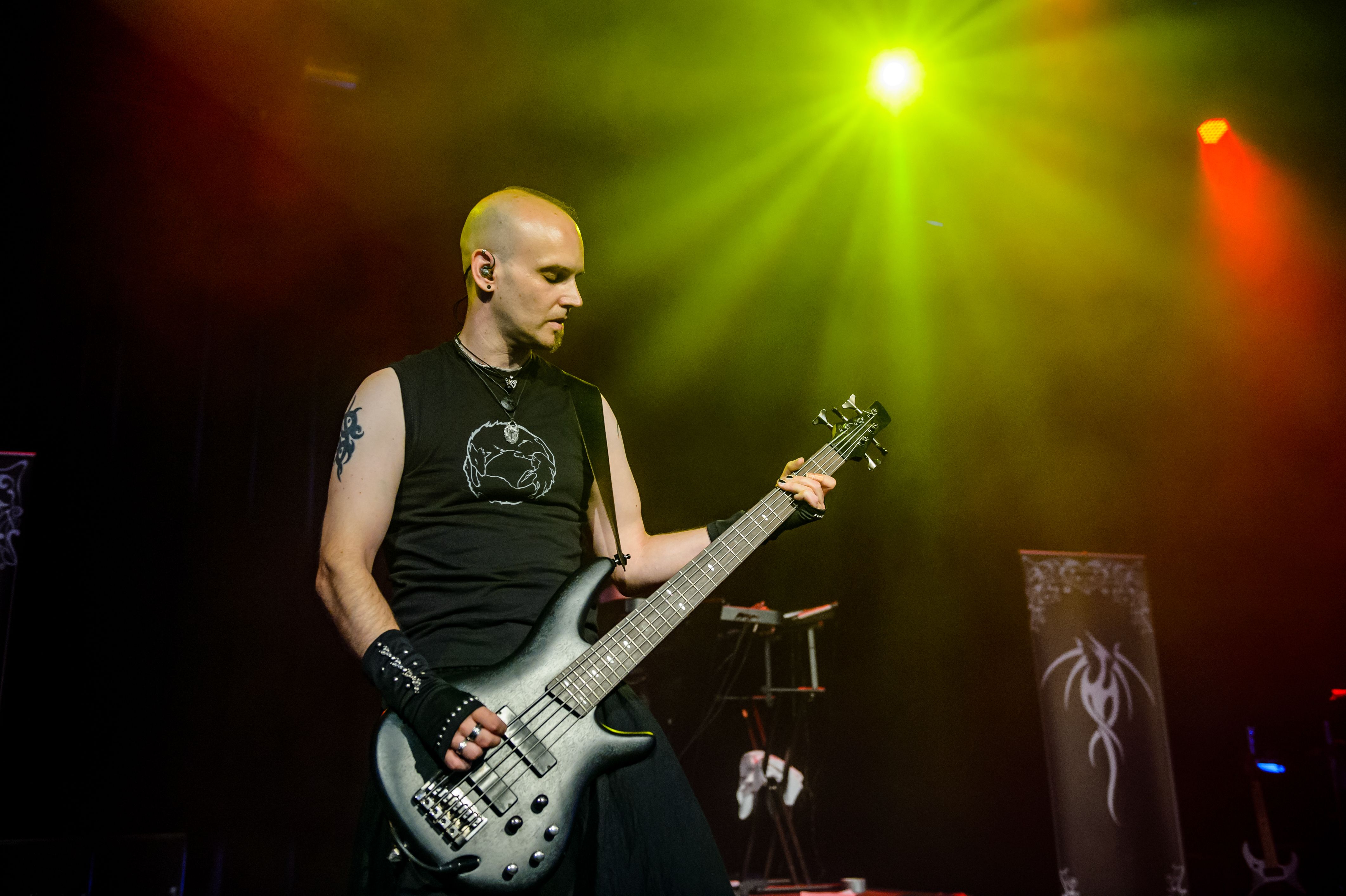 Mantus; Amphi festival 2016